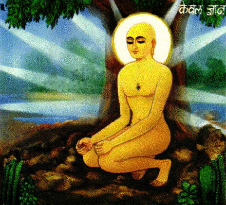 Kevala Jnana of Mahavira